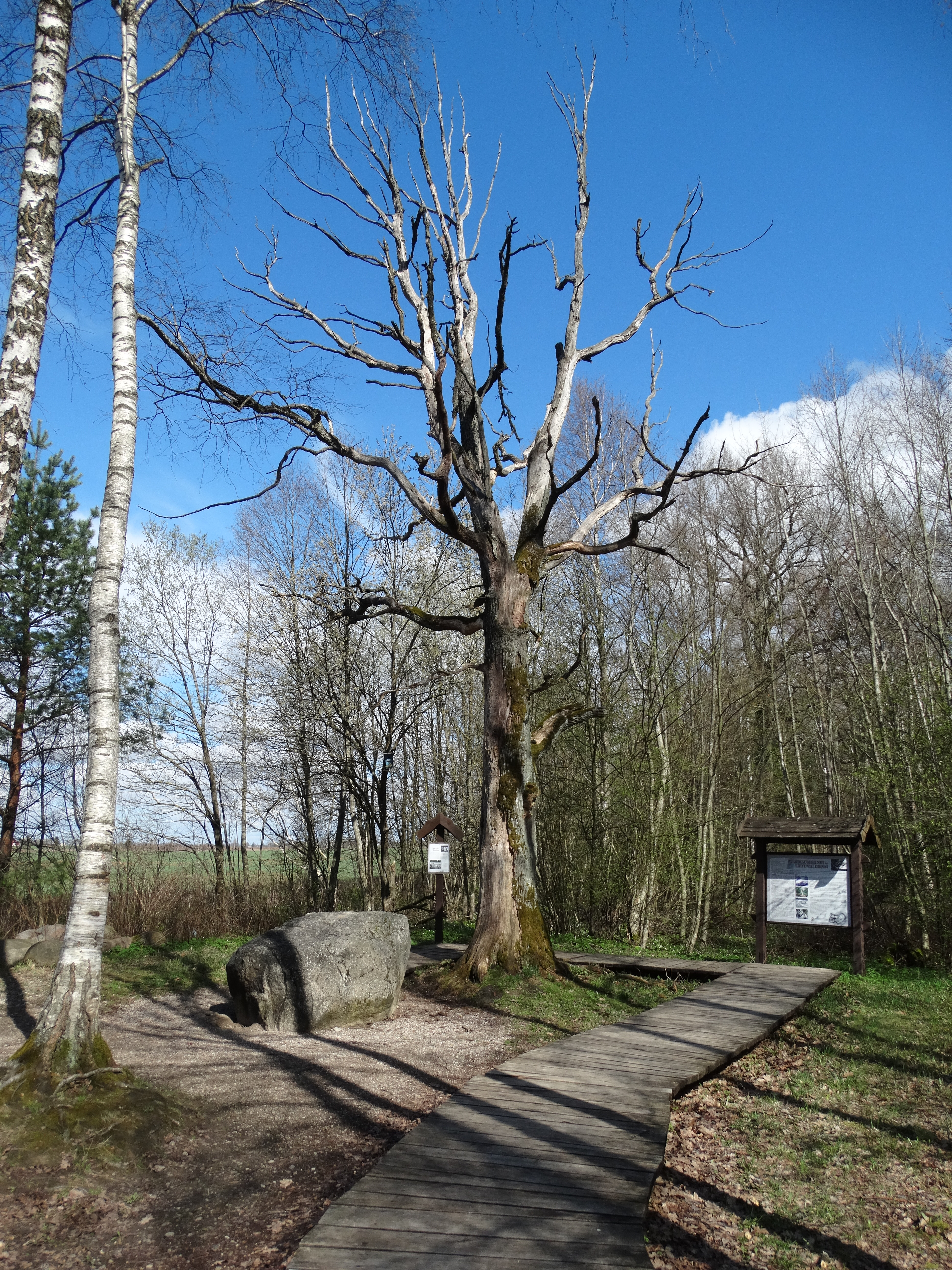 Bradeliškės (Airėnai) stone with signs, Vilnius district, Lithuania